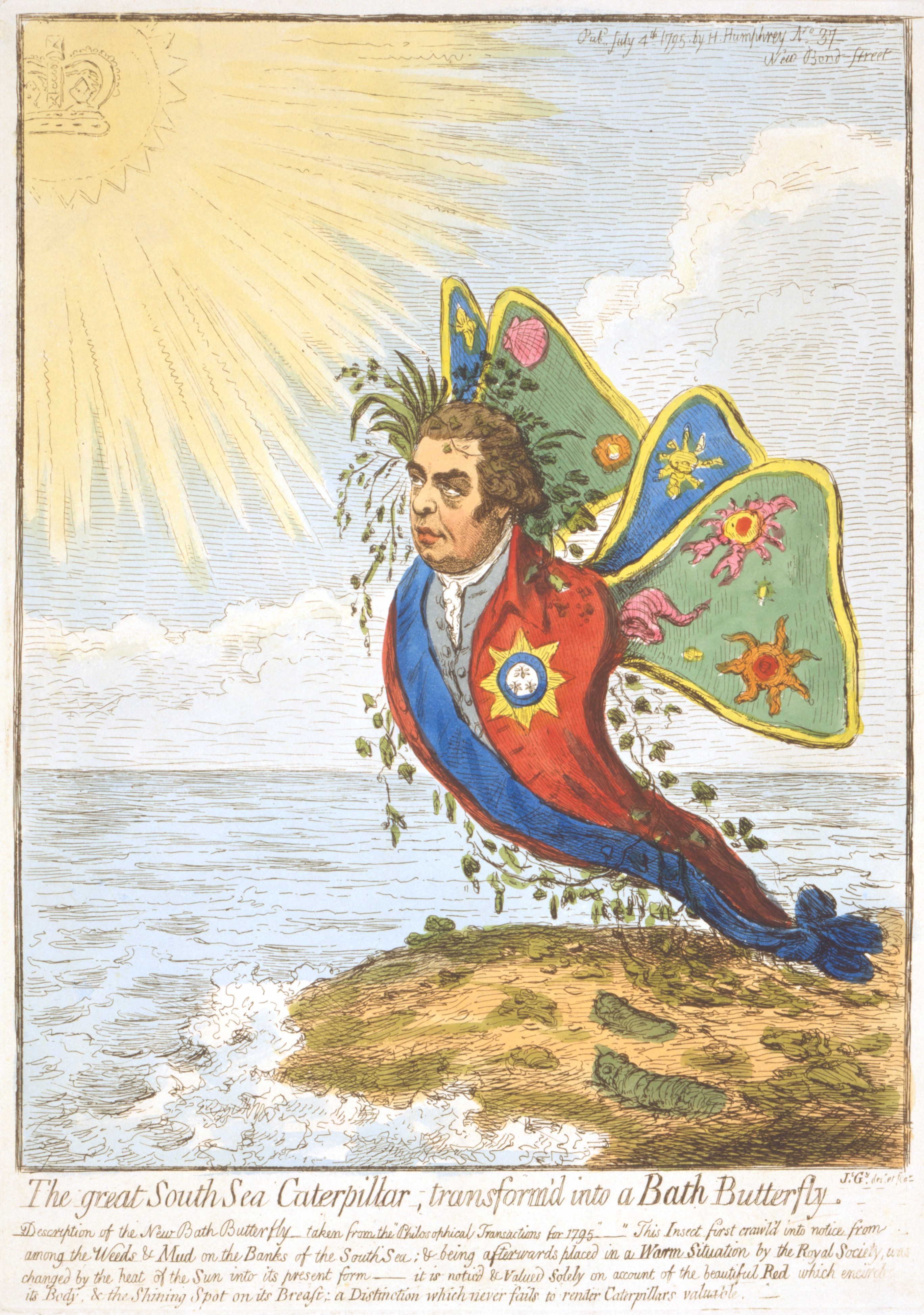 This is an image of a 1795 cartoon entitled The great south sea caterpillar, transform'd into a Bath butterfly. Cartoon shows the metamorphosis of Sir Joseph Banks from a caterpillar to a butterfly upon his investiture with the Order of the Bath as a result of his South Sea expedition. Draped with the ribbon, and wearing the jewel, of Bath, he rises, chrysalis shaped, from the mudflats on butterfly wings emblazoned with sea creatures towards a radiant sun enclosing a crown. MEDIUM: 1 print : etching, hand-colored. CREATED/PUBLISHED: [London] : Pubd. by H. Humphrey, 1795 July 4th.